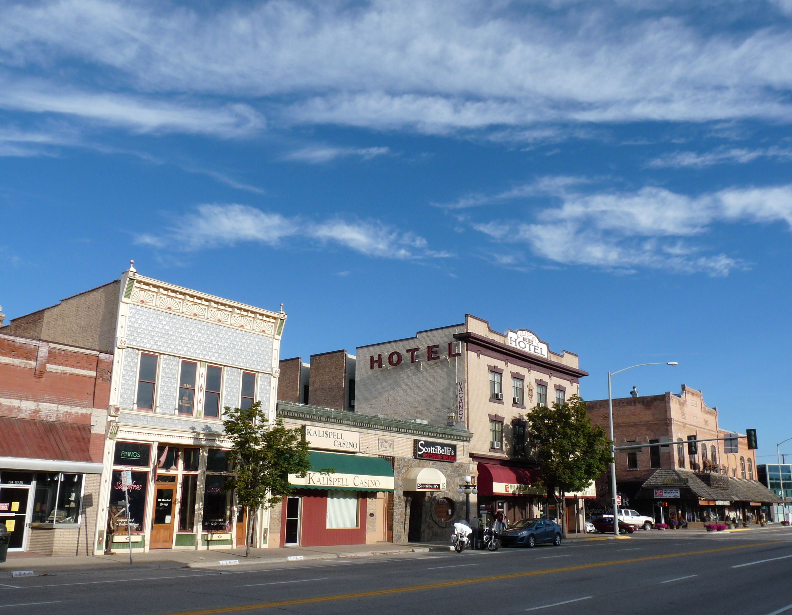 Shown are a few buildings on the Main Street of Kalispell, Montana, USA, including the Brewery Saloon, the Kalispell Grand Hotel, and the McIntosh Opera House. These buildings and others contribute to Kalispell's Main Street Historic District, recognized by the National Register of Historic Places.